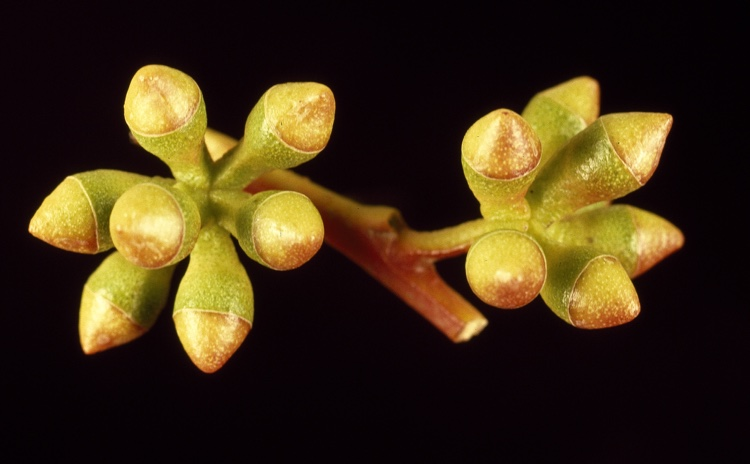 Flower buds of Eucalyptus micranthera